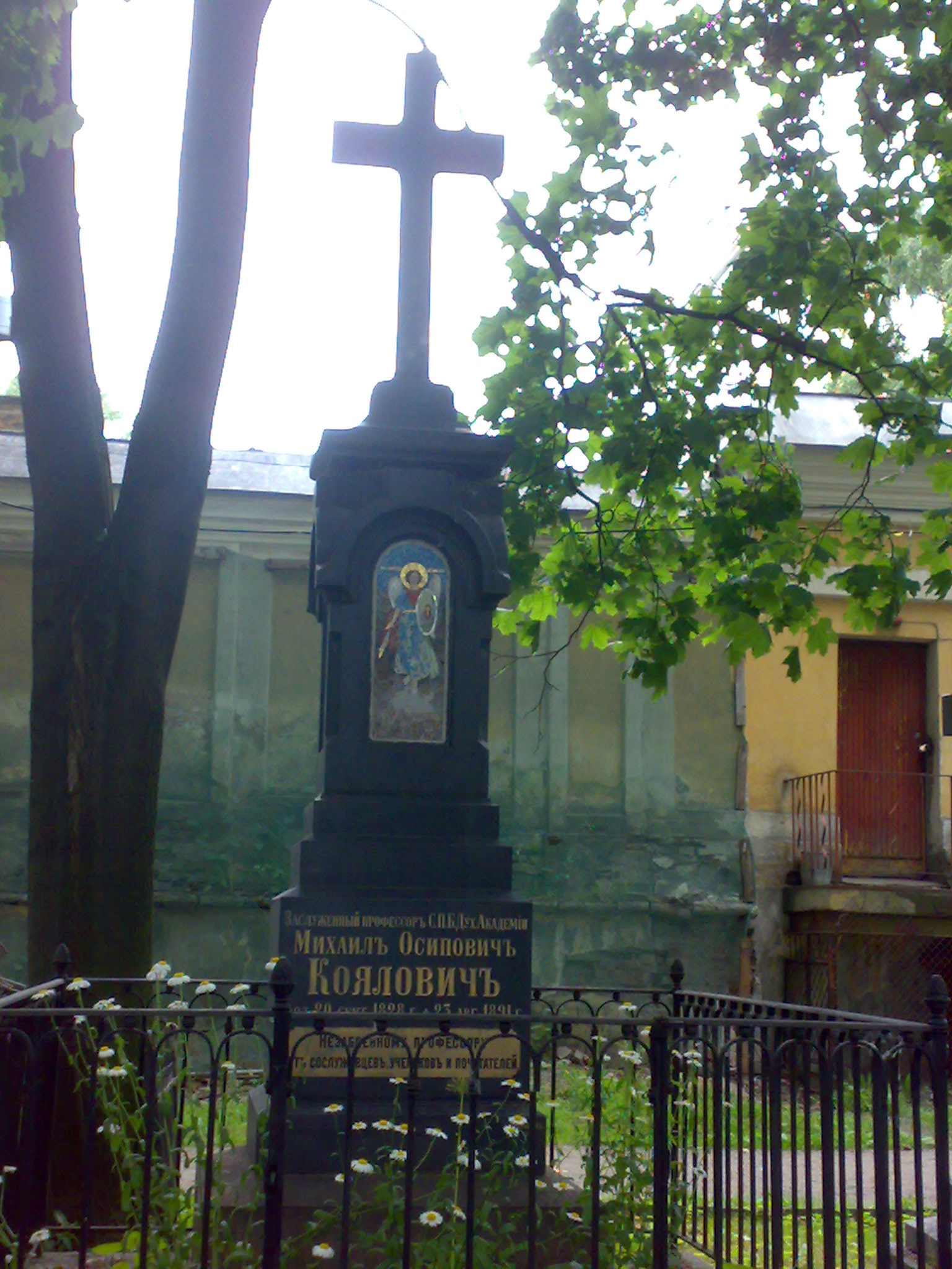 Tomb of M. O. Koyalovich